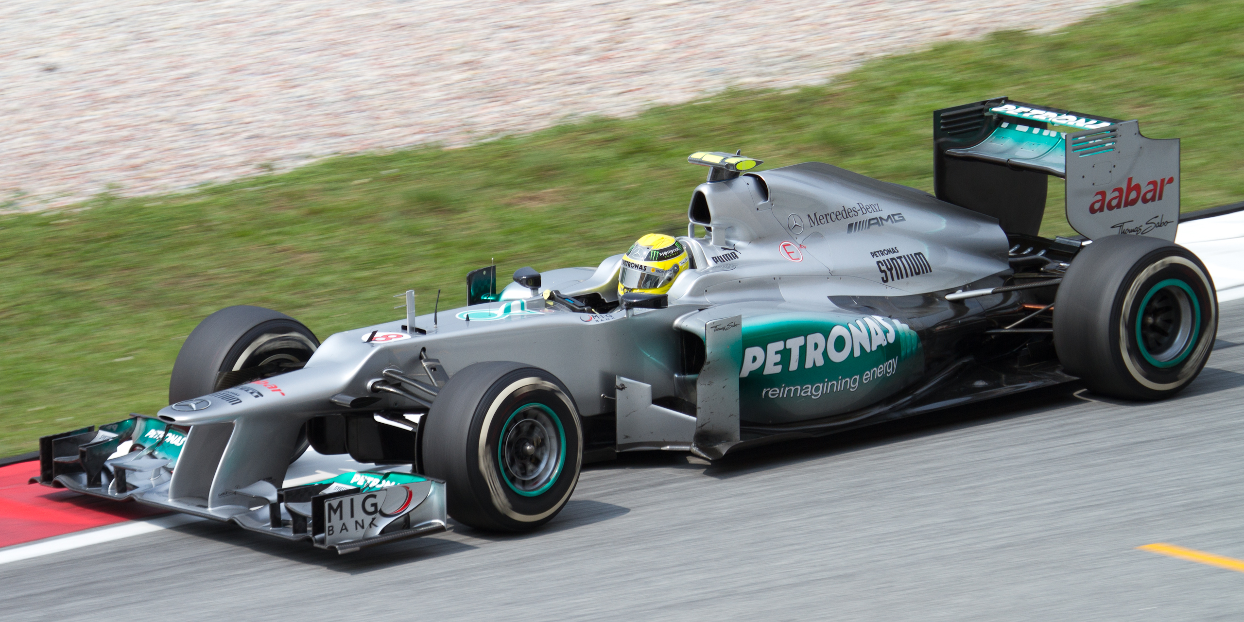 Formula One 2012 Rd.2 Malaysian GP: Nico Rosberg (Mercedes) during the second practice session on Friday.